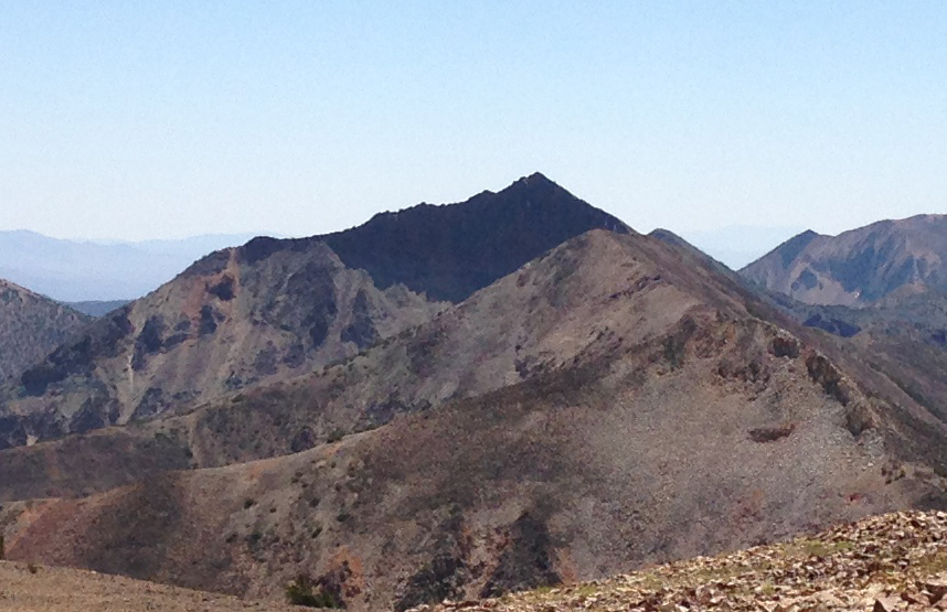 View of the Matterhorn from the summit of Jarbidge Peak